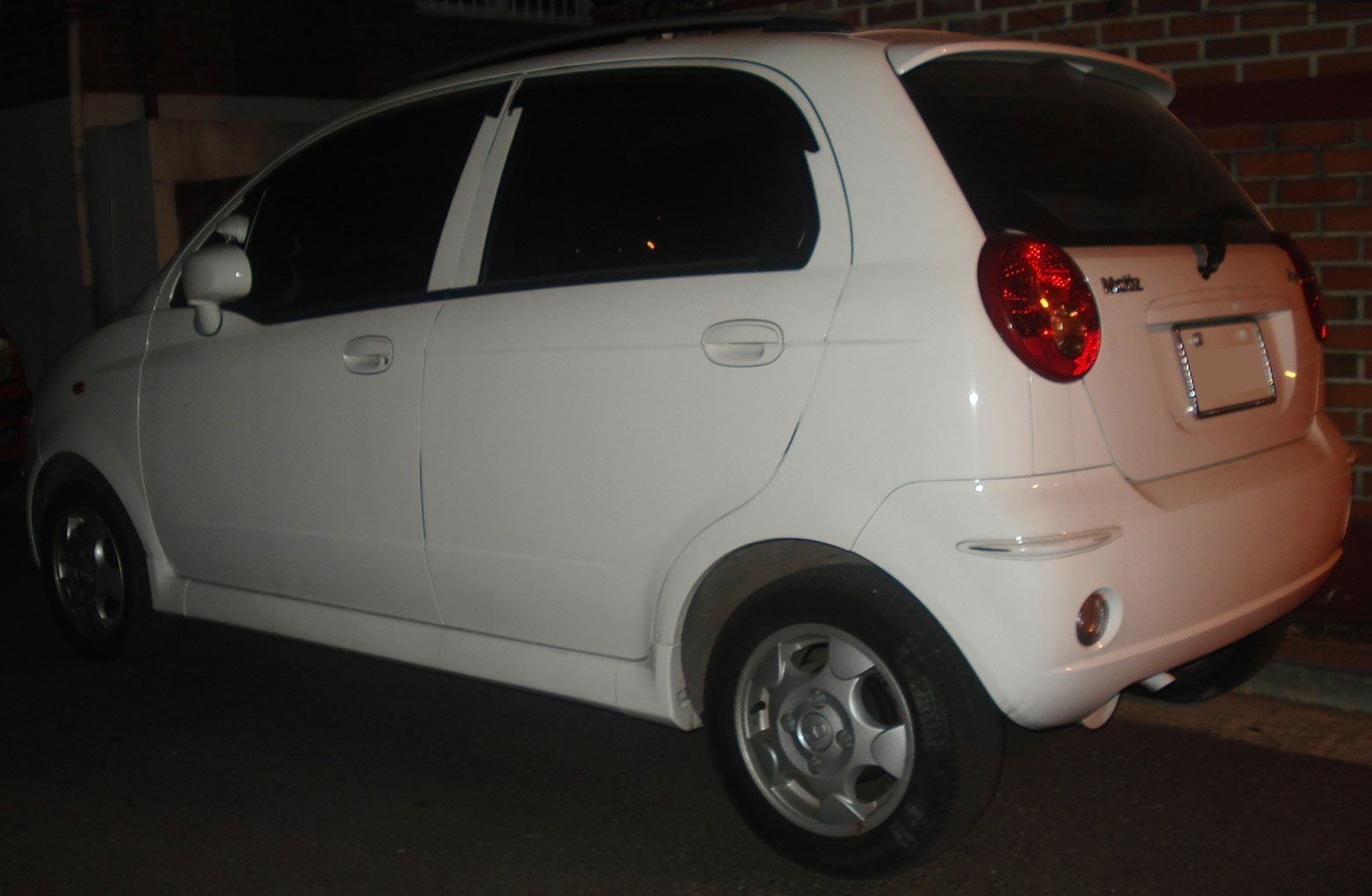 Daewoo All New Matiz